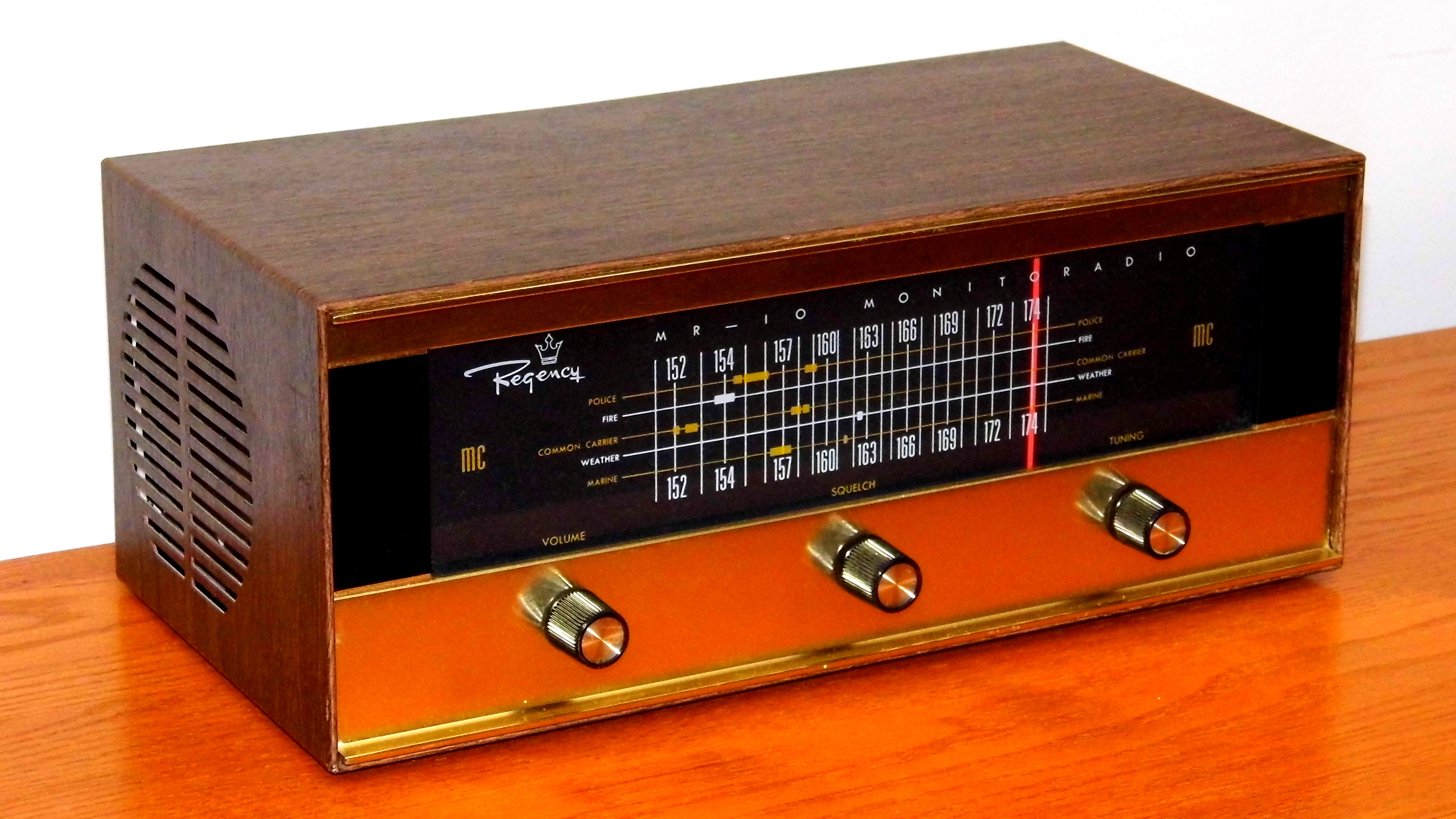 This radio sold for $84.95 in 1970.